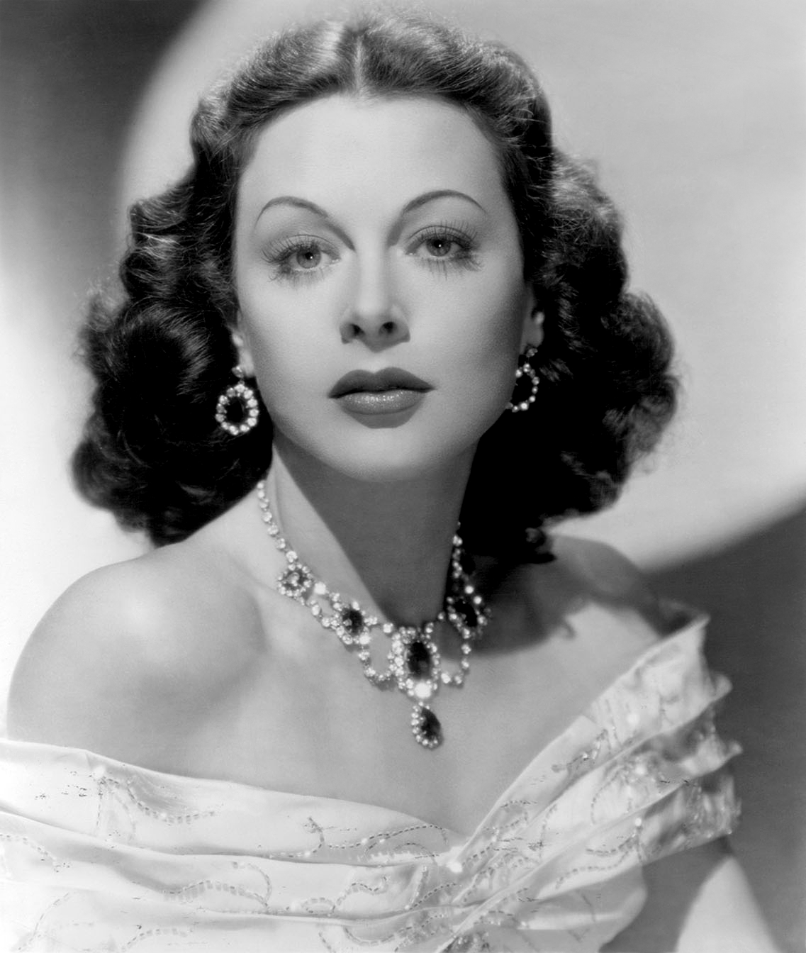 Hedy Lamarr in Let's Live a Little (1948). Though the company was British, this image was published in the US (note the "Minneapolis" stamp on the reverse)